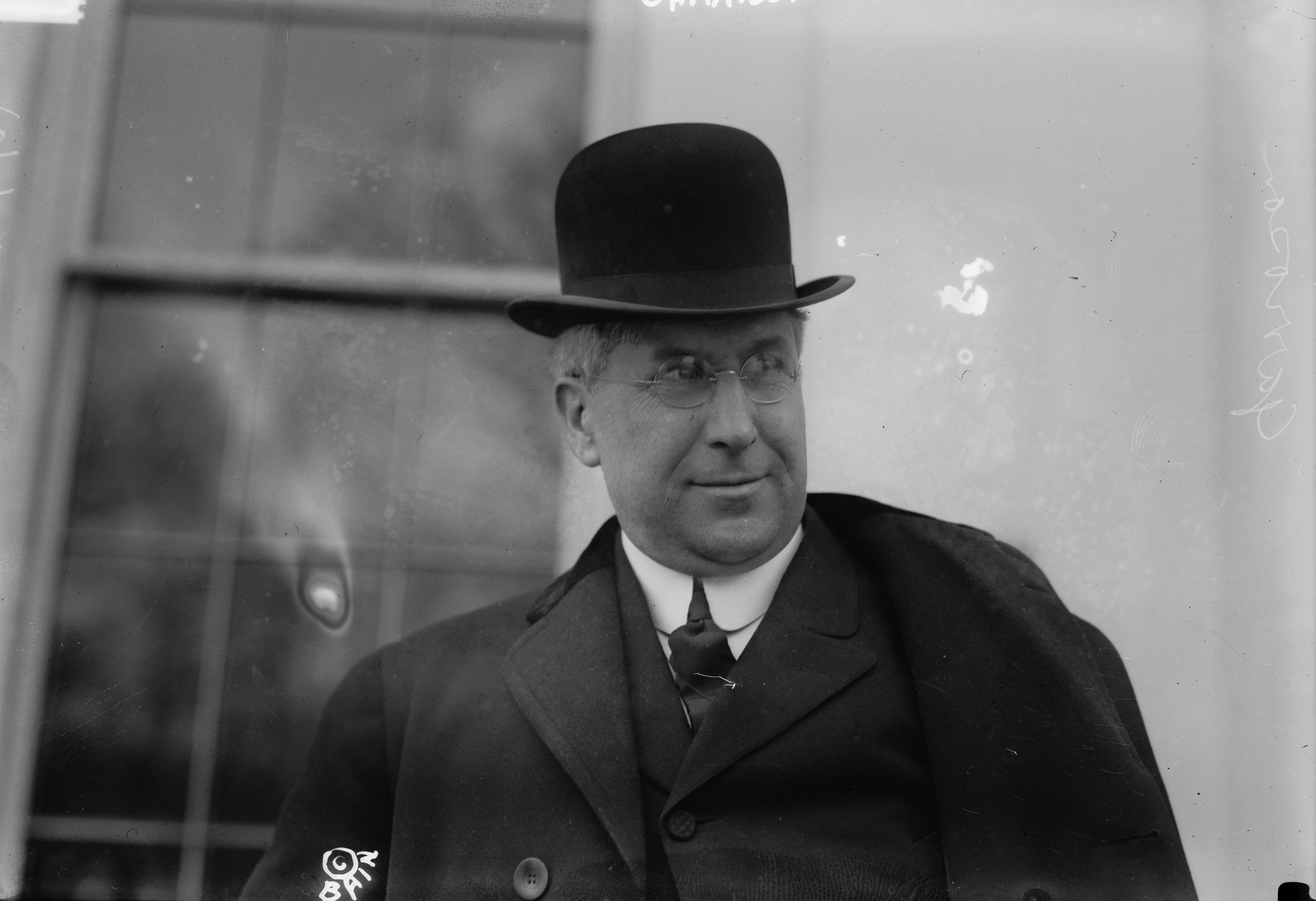 Lindley M. Garrison